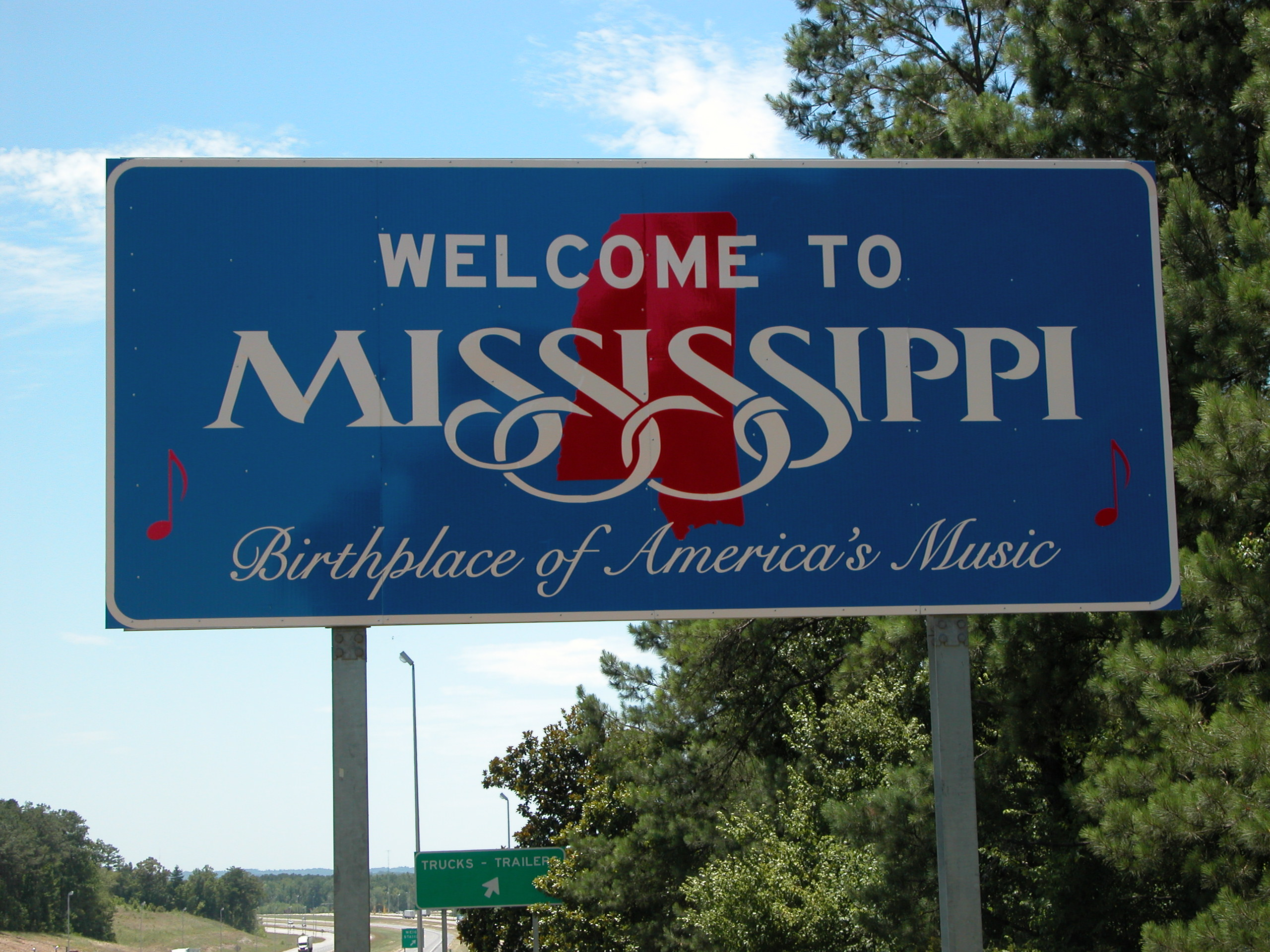 This photo is a sign at the Mississippi state line on Interstate 20.